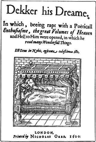 Woodcut from title page of Dekker his Dreame (1620)